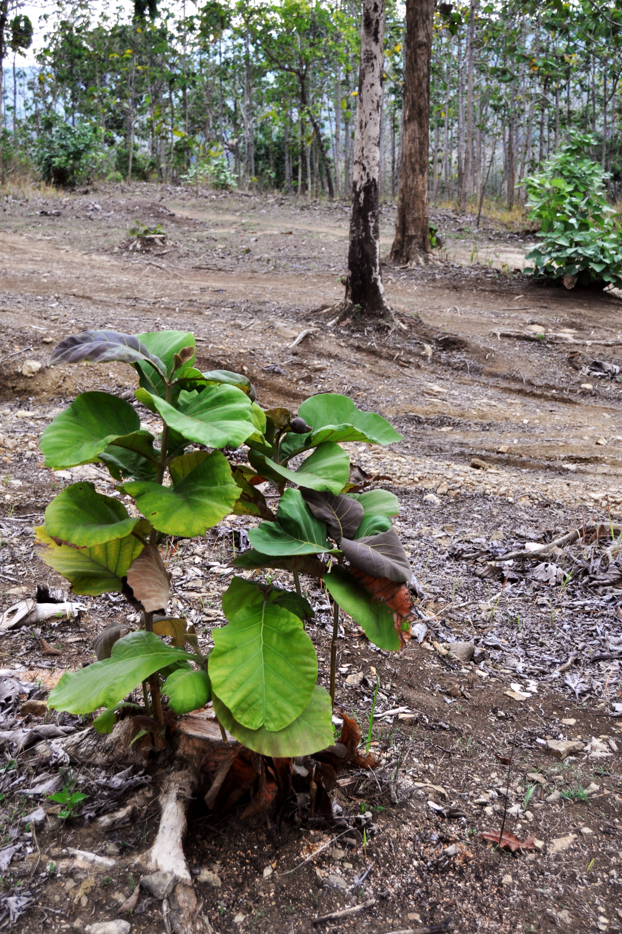 Teak (Tectona grandis) coppicing. Blora, Central Java, Indonesia.